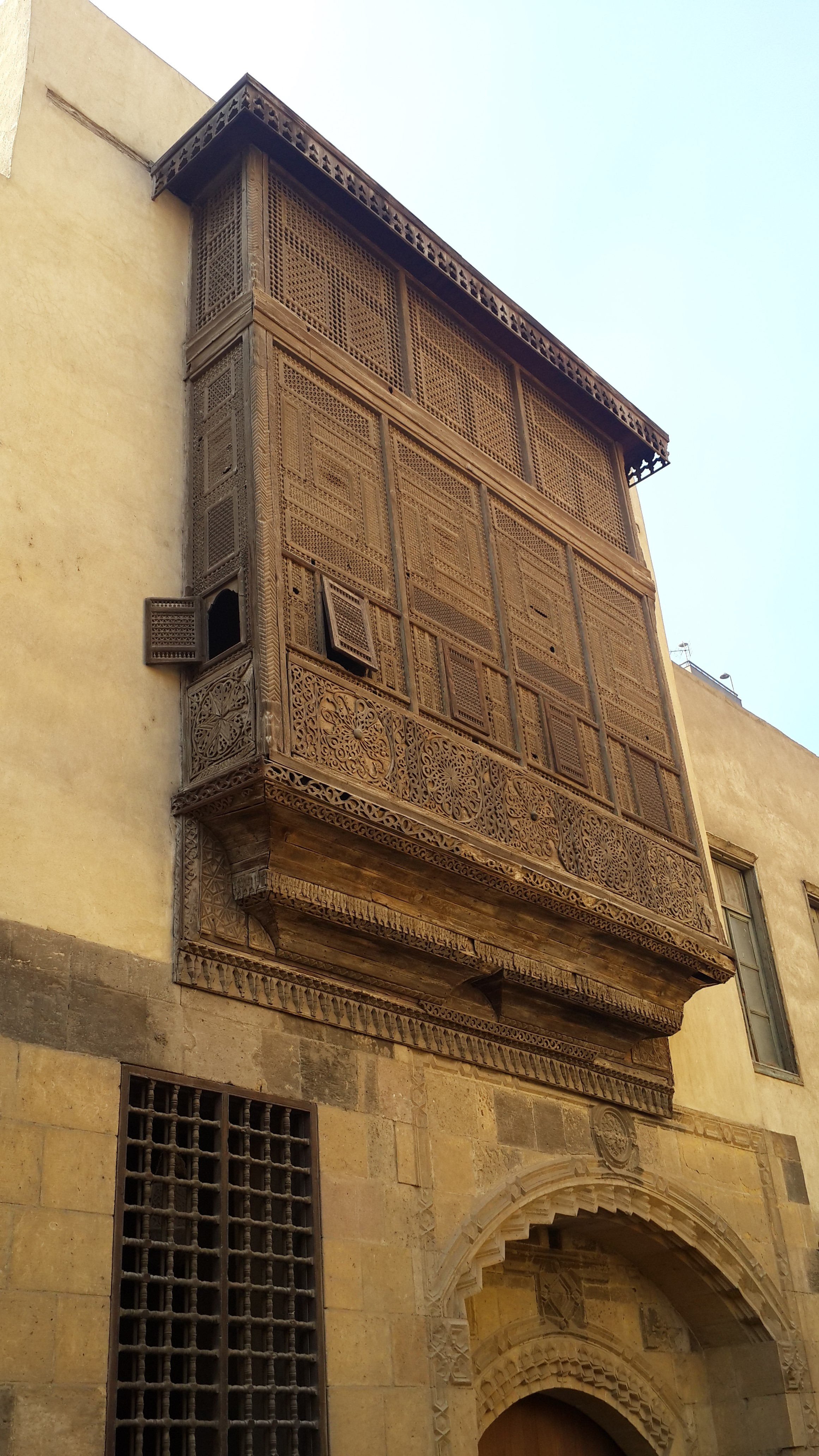 "Mashrabiya" at Al-Sadat house in Cairo